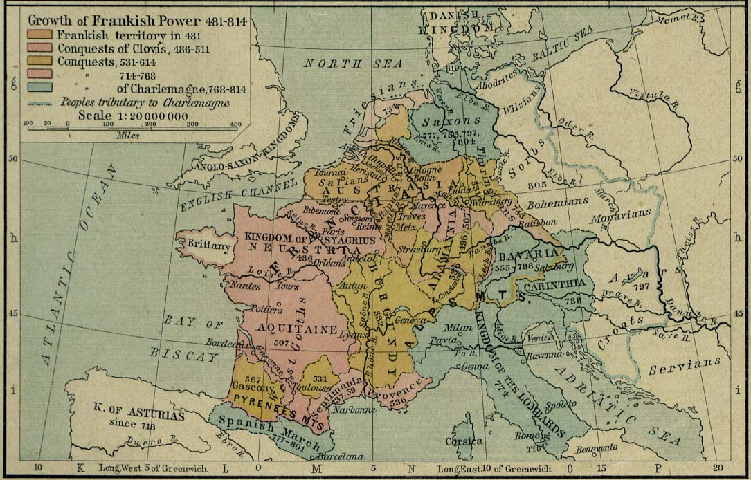 The growth of Frankish power, 481–814, showing Francia as it originally was after the crumbling of the Western Roman Empire